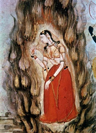 Sita enduring the ordeal by fire, Mughal, ca. 1600